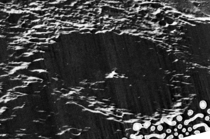 Oblique view of Leeuwenhoek, on the far side of the moon, facing west. Dots in lower right are blemishes on original.